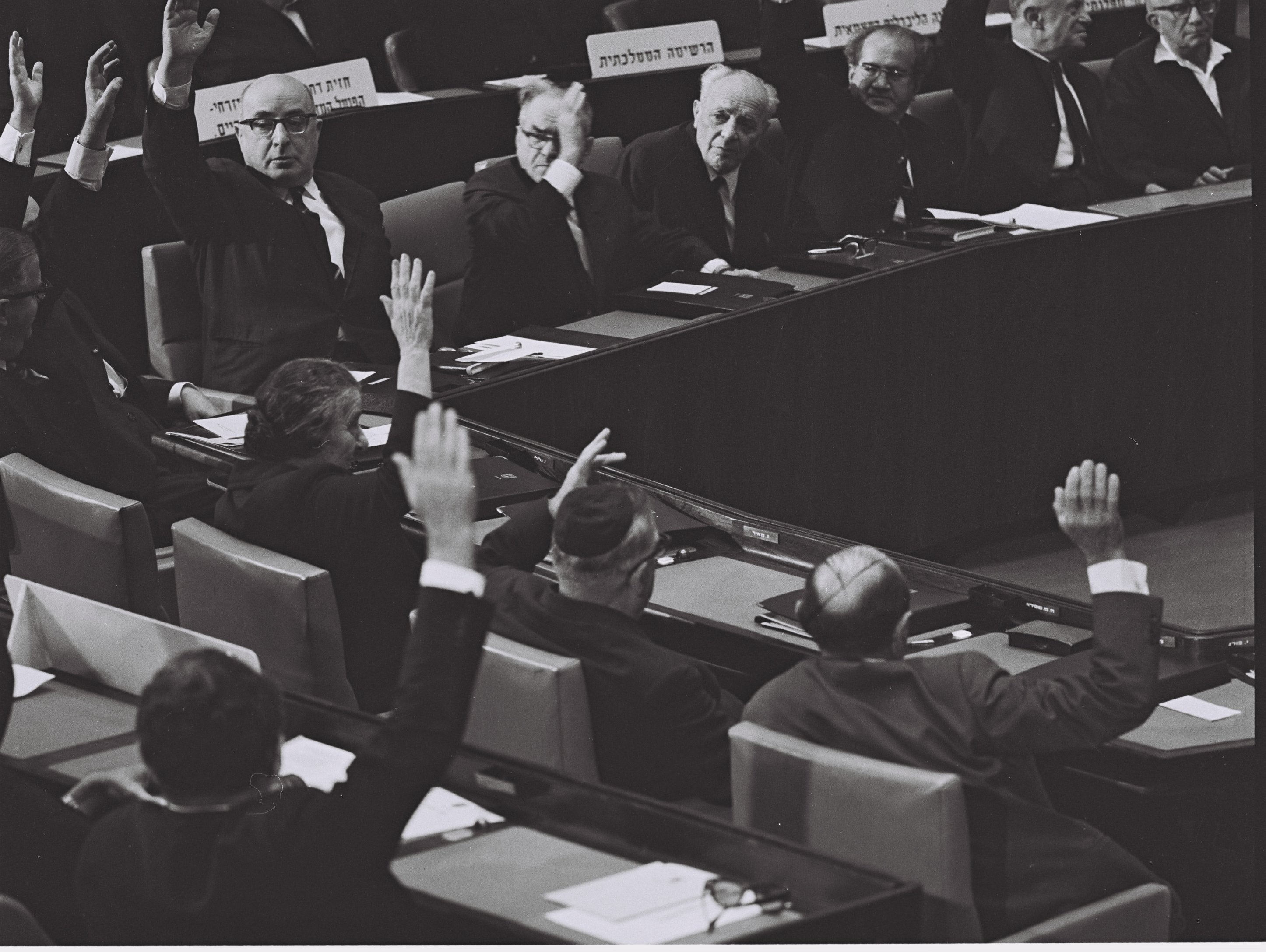 MEMBERS OF THE GOVERNMENT RAISING THEIR HANDS DURING THE ELECTION OF KNESSET SPEAKER AT THE FIRST SESSION OF THE 7TH KNESSET IN JERUSALEM.